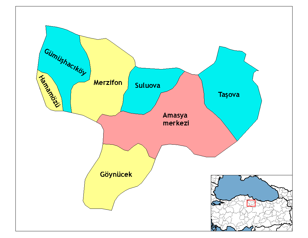 Map of the districts of Amasya province in Turkey. Created by Rarelibra 16:33, 1 December 2006 (UTC) for public domain use, using MapInfo Professional v8.5 and various mapping resources. Edited by One Homo Sapiens Corrected text where İ,Ş,ı,ğ,or ş occurs in name. Source: [statoids-com]. Increased font size and enhanced color differences among adjacent districts.